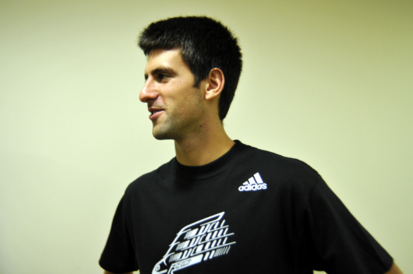 Novak Djokovic posing on November 12, during the 2008 Tennis Masters Cup